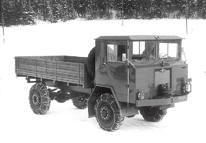 Vanaja VKN3600 4×4, a prototype made for Finnish Defence Forces.